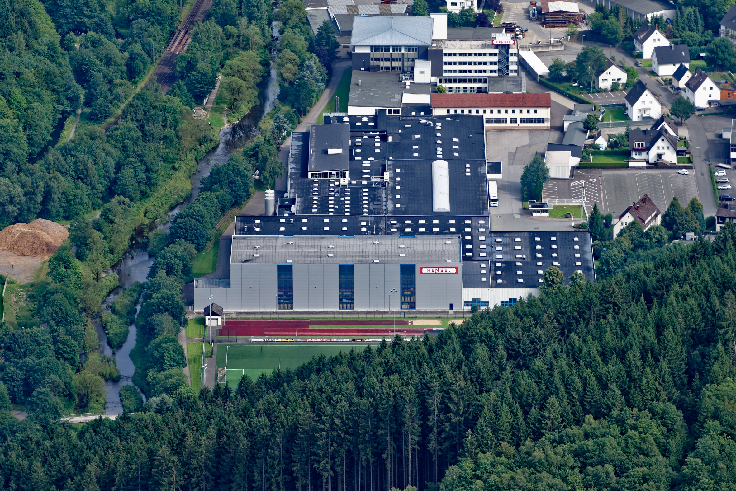 Firma Gustav Hensel GmbH & Co. KG in Lennestadt-Meggen The making of this document was supported by the Community-Budget of Wikimedia Germany.